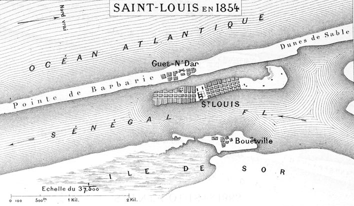 Map of Saint-Louis in 1854